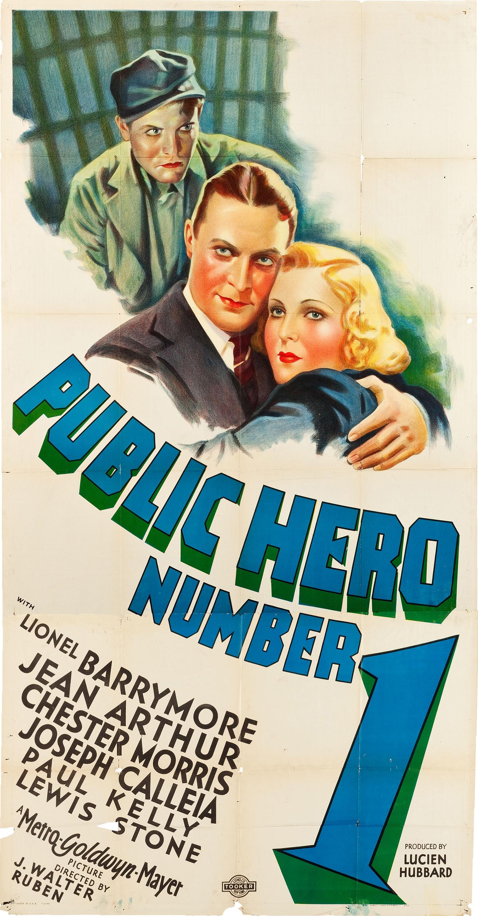 Poster for the 1935 film Public Hero Number 1, starring Chester Morris, Joseph Calleia and Jean Arthur